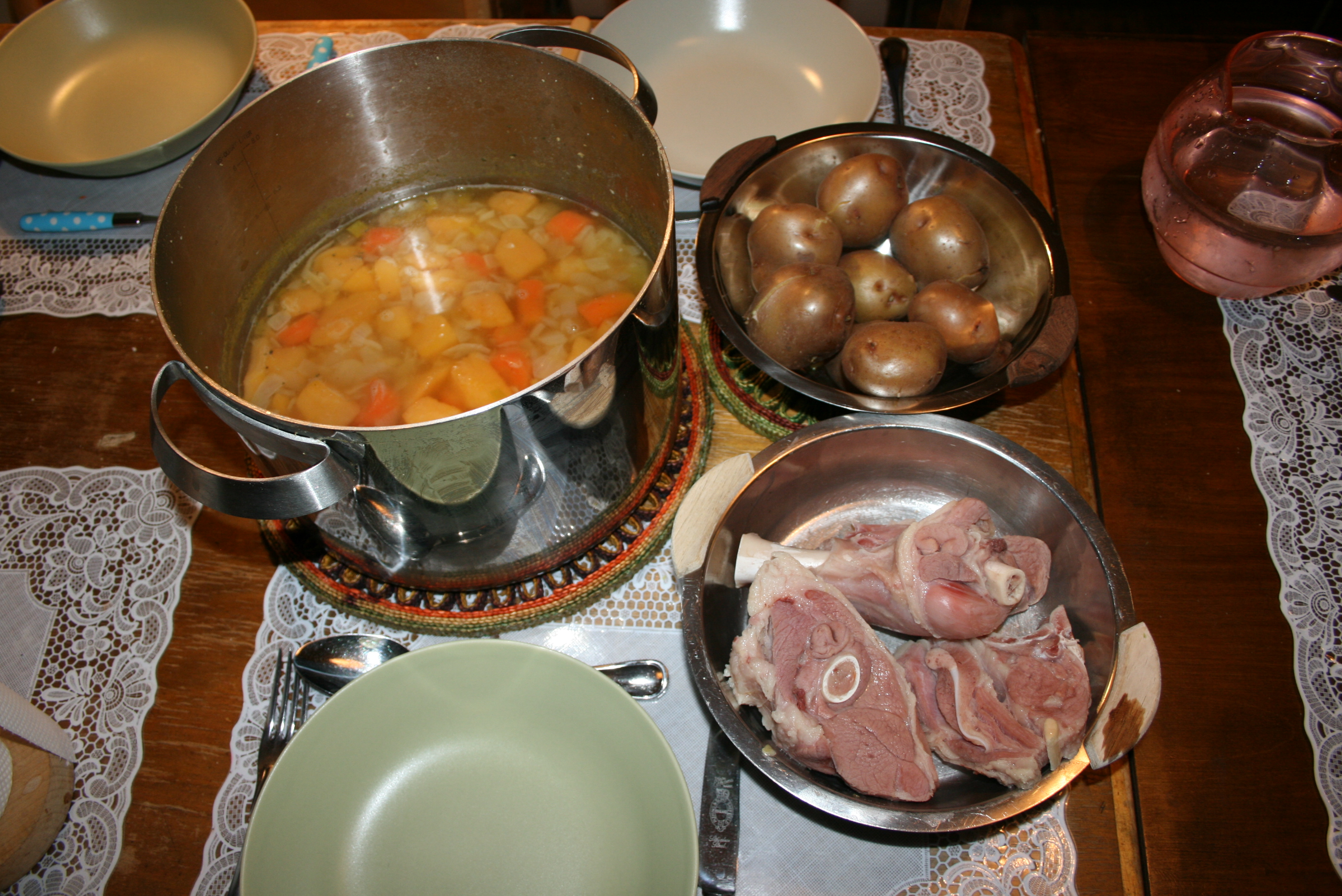 Salted meat and beans (ís. Saltkjöt og baunir) , traditional food on Mardi Gras (ís. Sprengidagur) in Iceland.